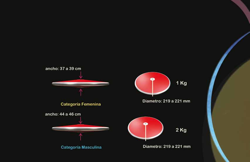 discus throw